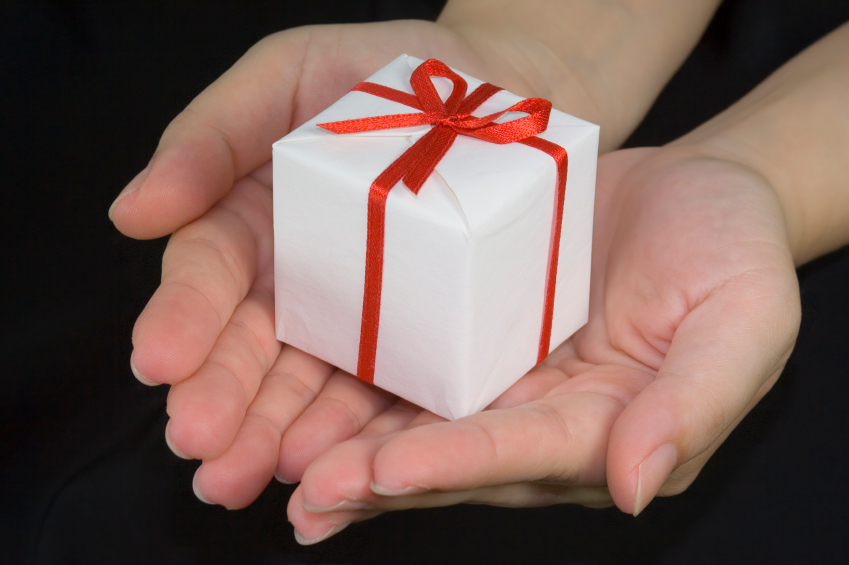 Someone offering a gift.